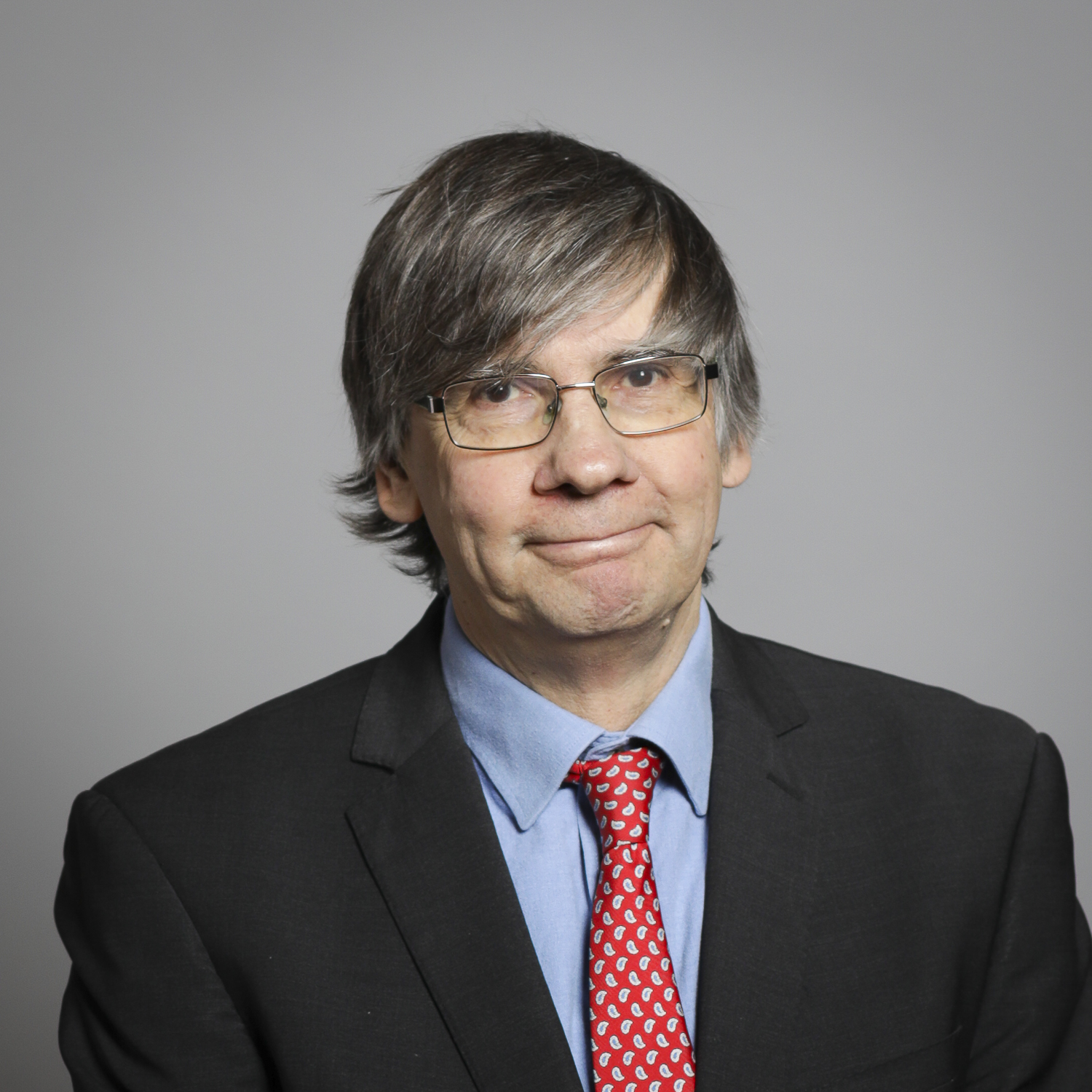 Official portrait of The Earl of Clancarty 1×1 portrait of The Earl of Clancarty